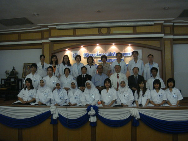 gown_pnu